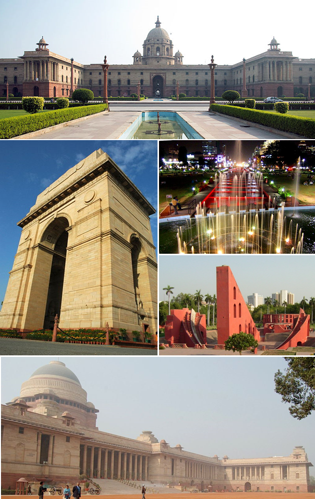 New Delhi, the capital city of India